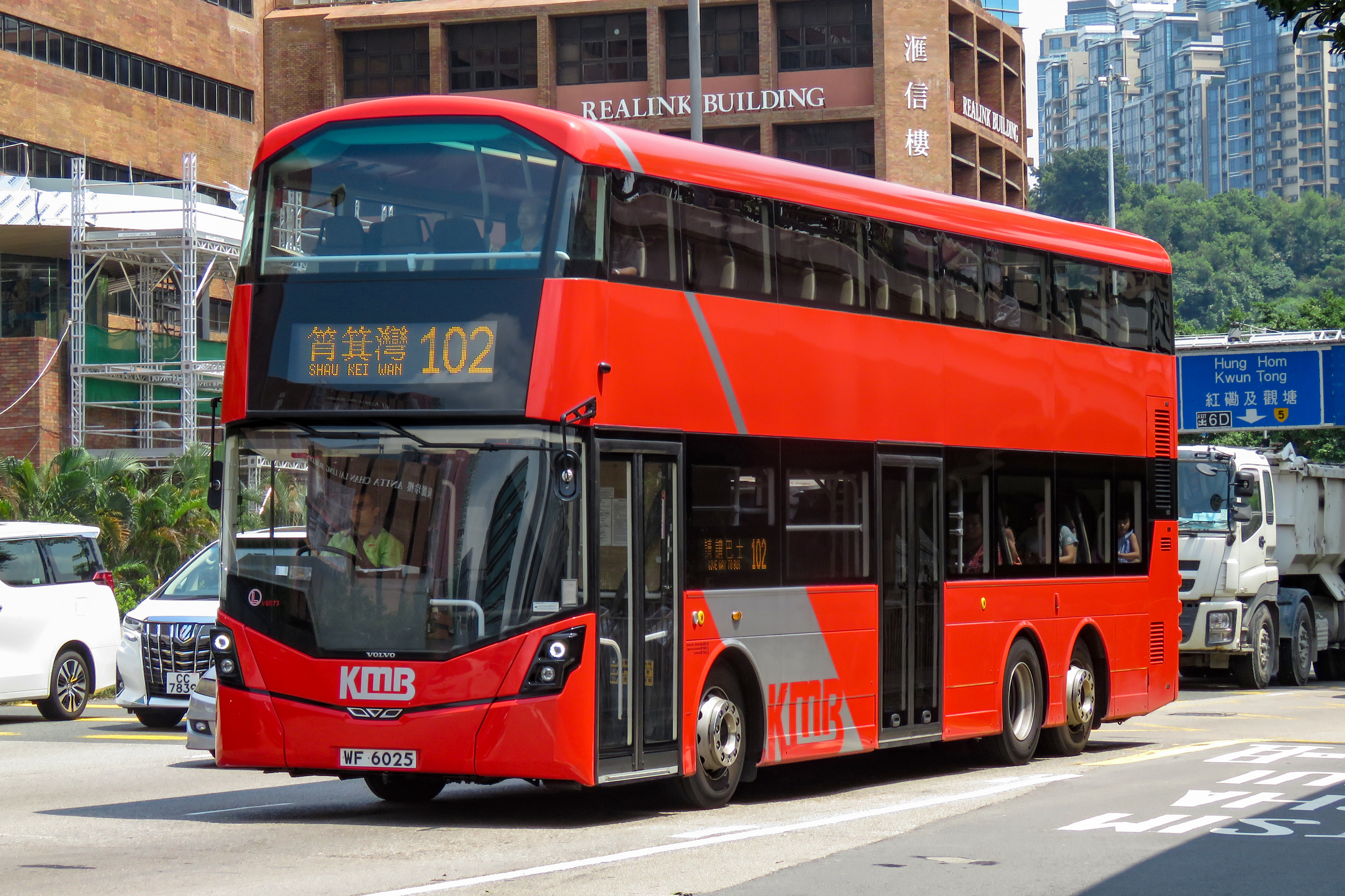 Not perfect to spot here in summer...